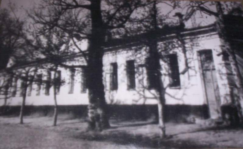 The image of the old school's building